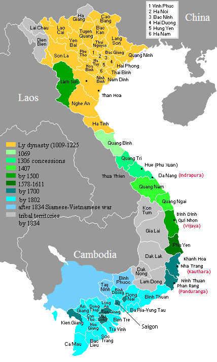 Territorial expansion of Vietnam from Ly Dynasty to early Nguyen Dynasty.